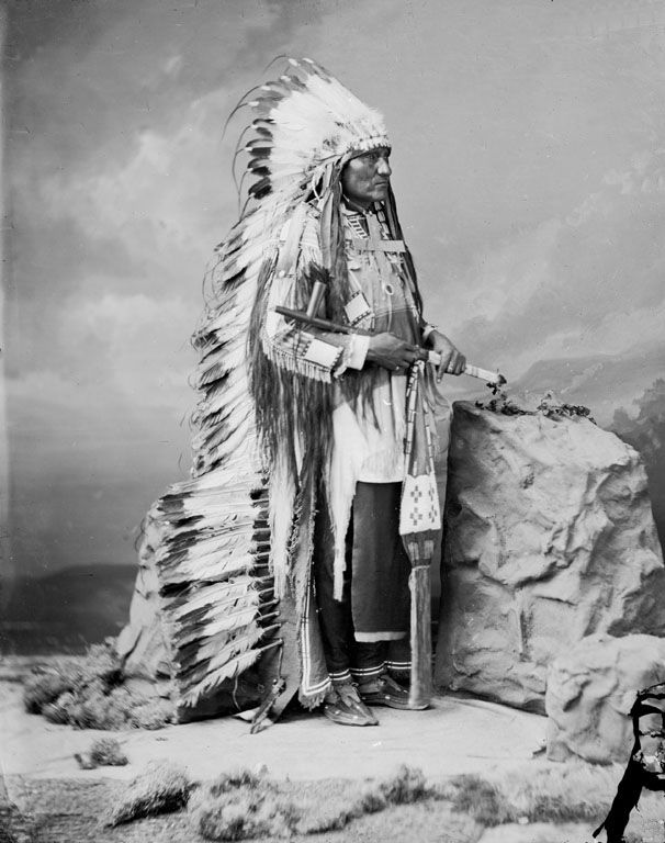 Chief Little-Wound Oglala, Sioux 1877 photographed in Washington D.C.